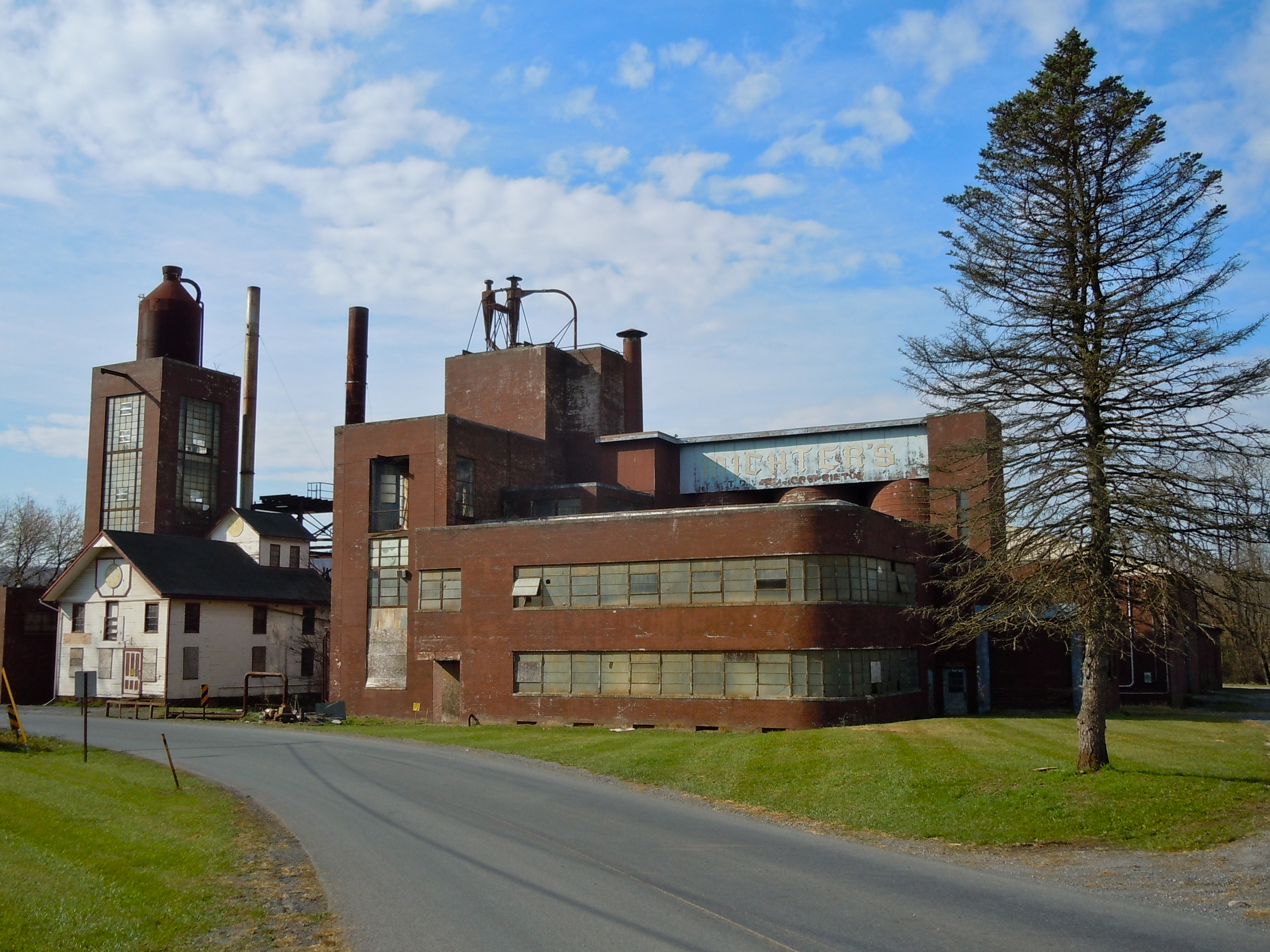 National Historic Landmark Bomberger's Distillery on the NRHP since June 26, 1975. 7 miles (11 km) southwest of Newmanstown off Pennsylvania Route 501, Heidelberg Township, Lebanon County, Pennsylvania. On Distillers Road near Metzgers Rd, closer to Schaeffertown, PA